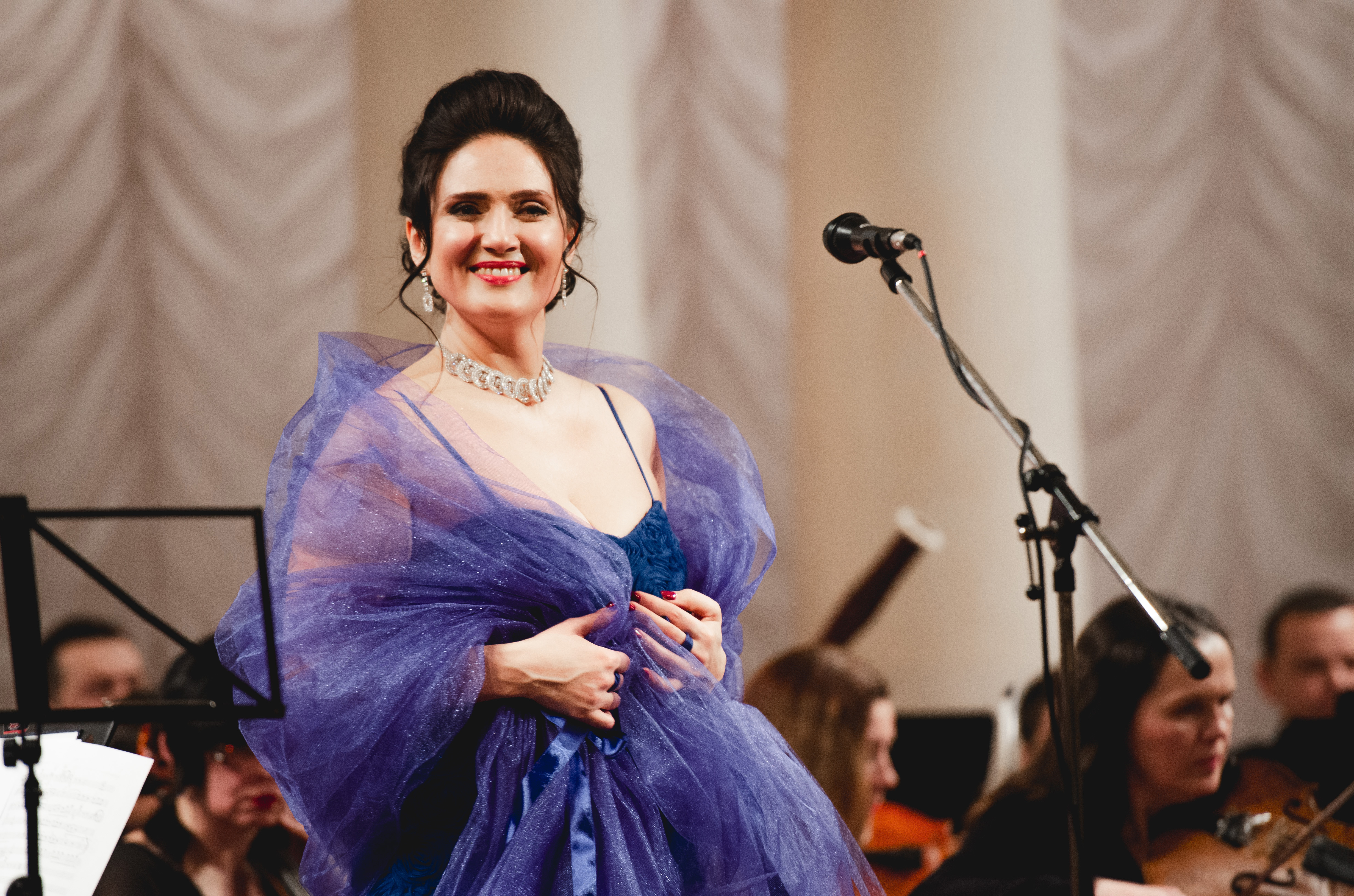 Olga Chubareva Kyiv 2020